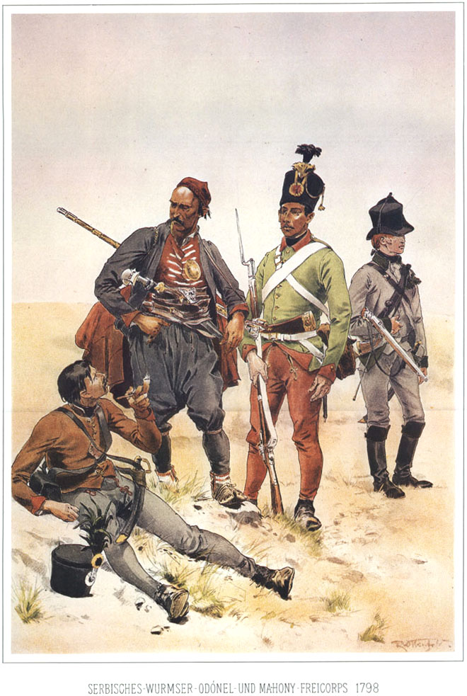 Serbian, Wurmser, Odonel and Mahony Free Corps in 1798. Rudolf Otto von Ottenfeld.